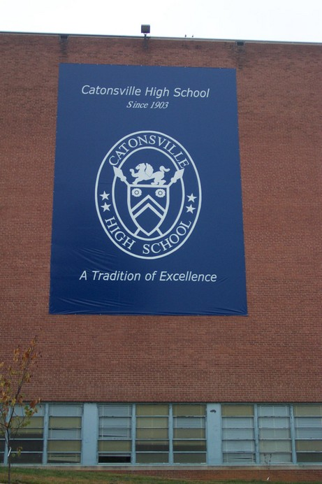 Catonsville High School